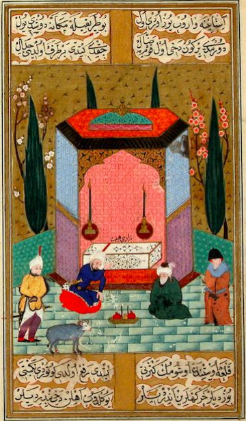 Salman khan's visit to Bibihetbet mauseleum